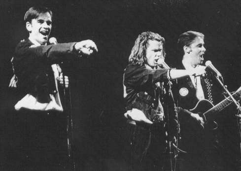 Australian comedy trio the Doug Anthony All Stars (DAAS) in concert at the University of Tasmania Activities Centre, 14 April 1994. From left: Tim Ferguson, Paul McDermott, Richard Fidler. Originally published in Togatus, the magazine of the Tasmania University Union.